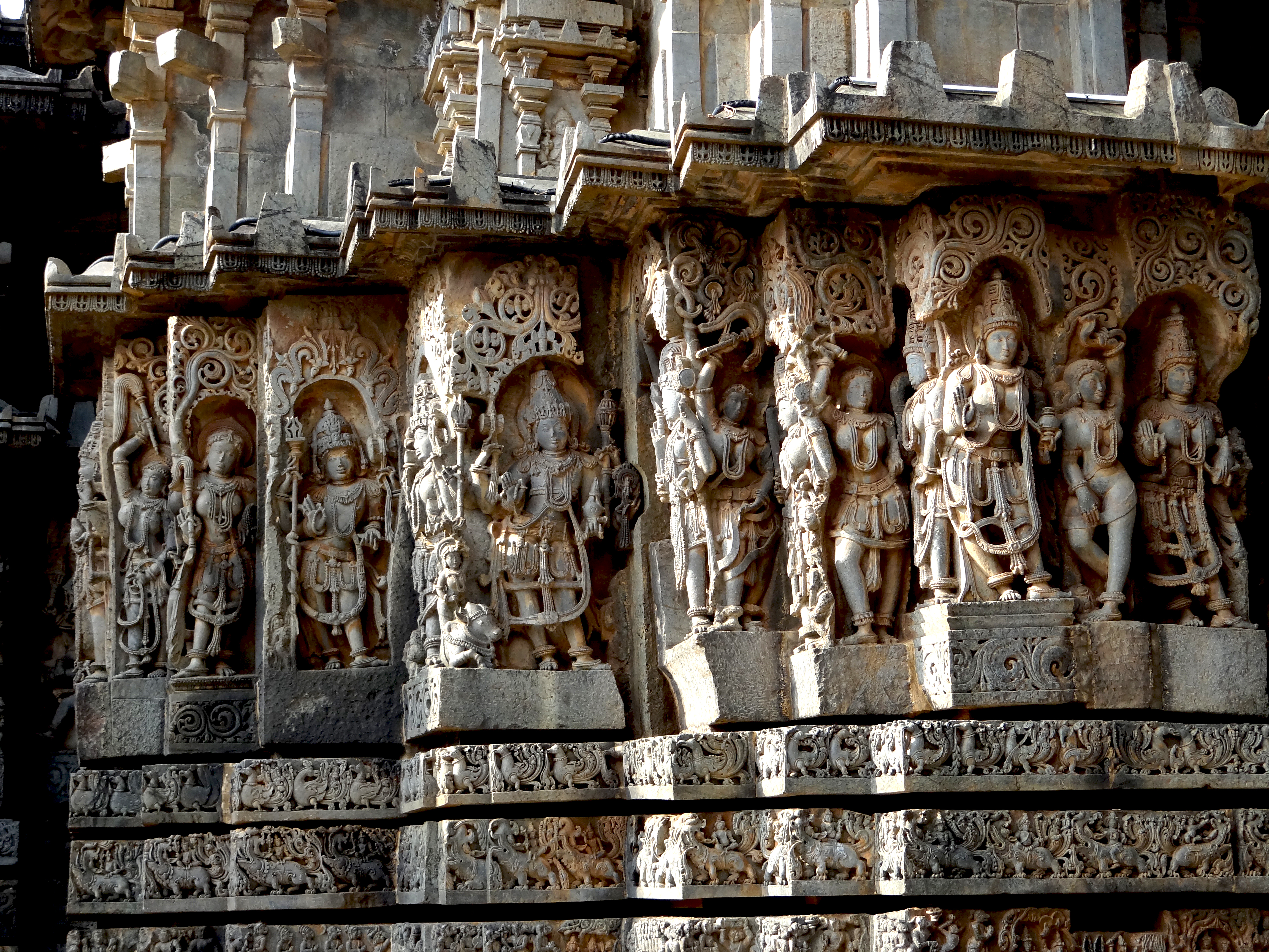 A play of light and shadows at the Hoysaleshwara Temple, Halebid.